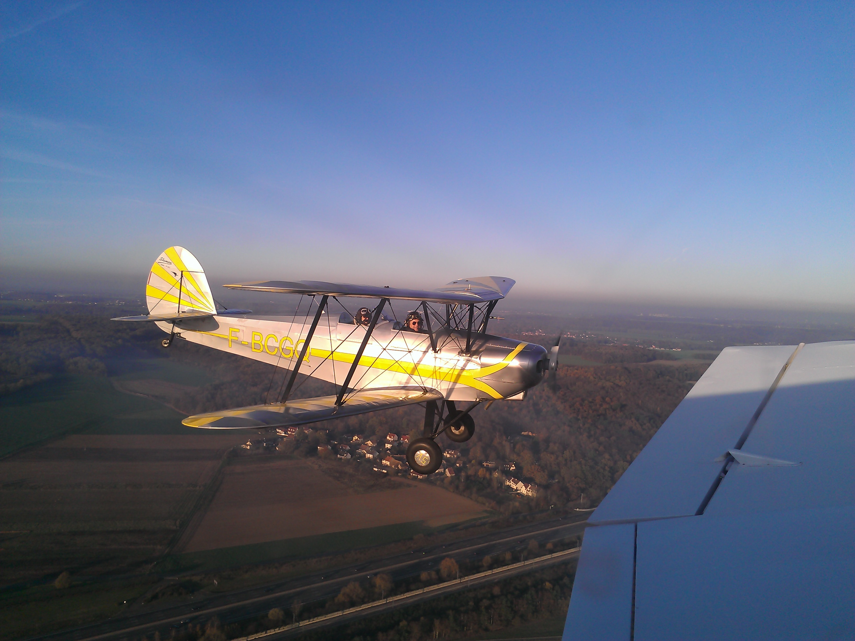 Stampe & Vertongen SV-4E F-BCGQ flying near Saint-Cyr L'Ecole, France. Picture taken from a Robin DR-400 EcoFlyer